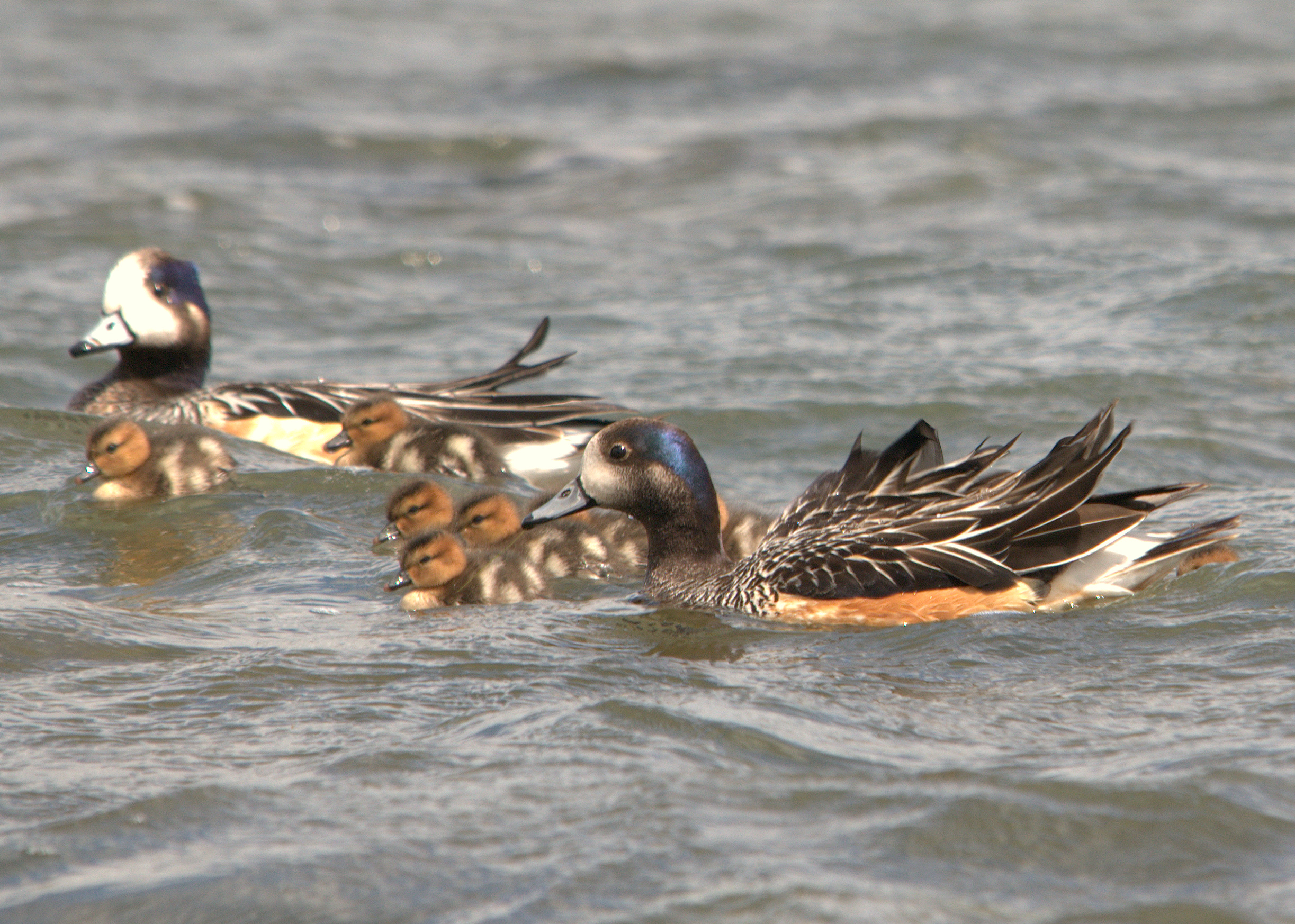 A Chilöe Wigeon family in Puerto Natales, Patagonia, Chile.